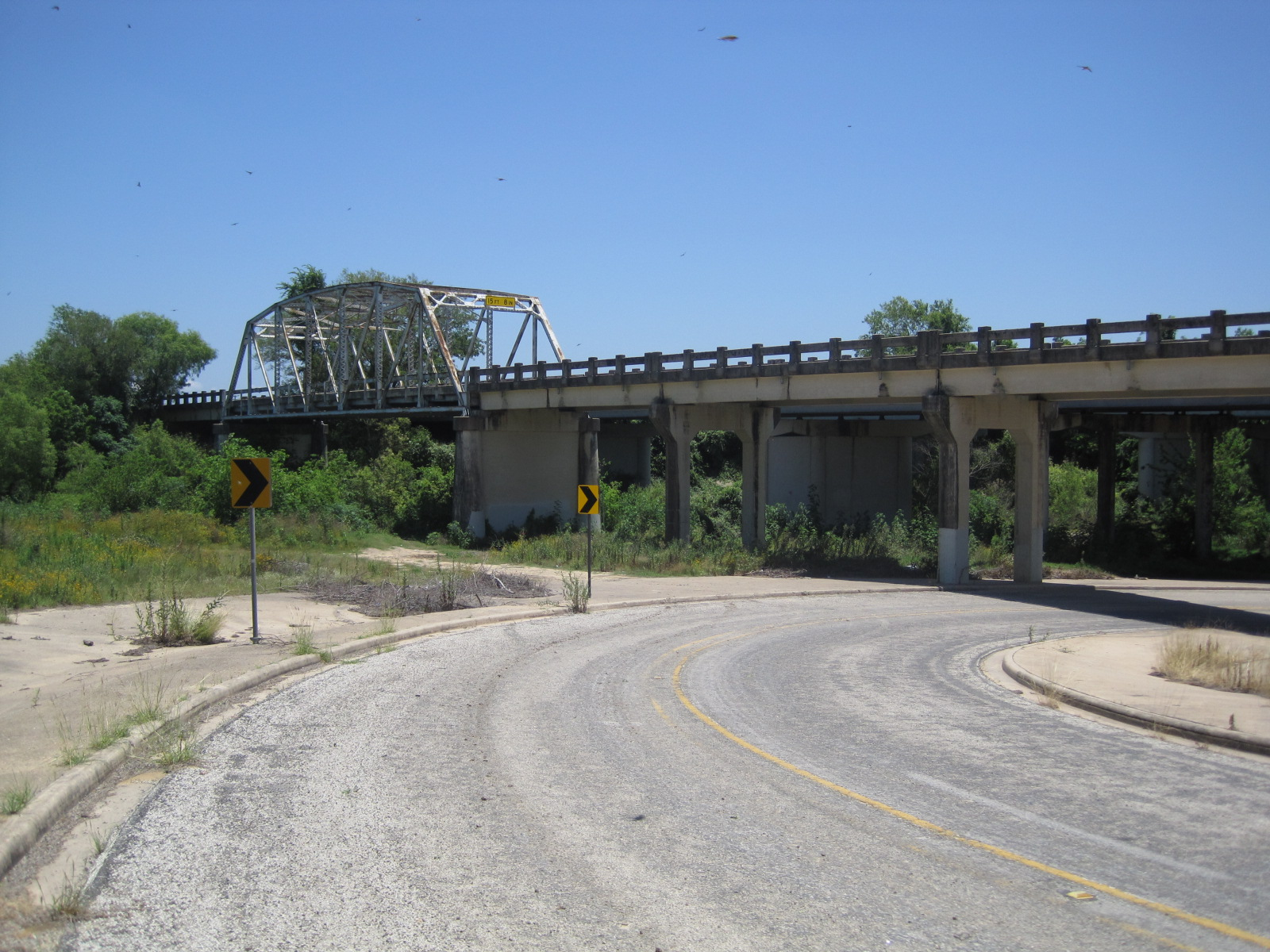 State Highway 3A bridge over Comal Creek, Bexar/Guadalupe County Line. Currently frontage road for I-10. NRHP listing.